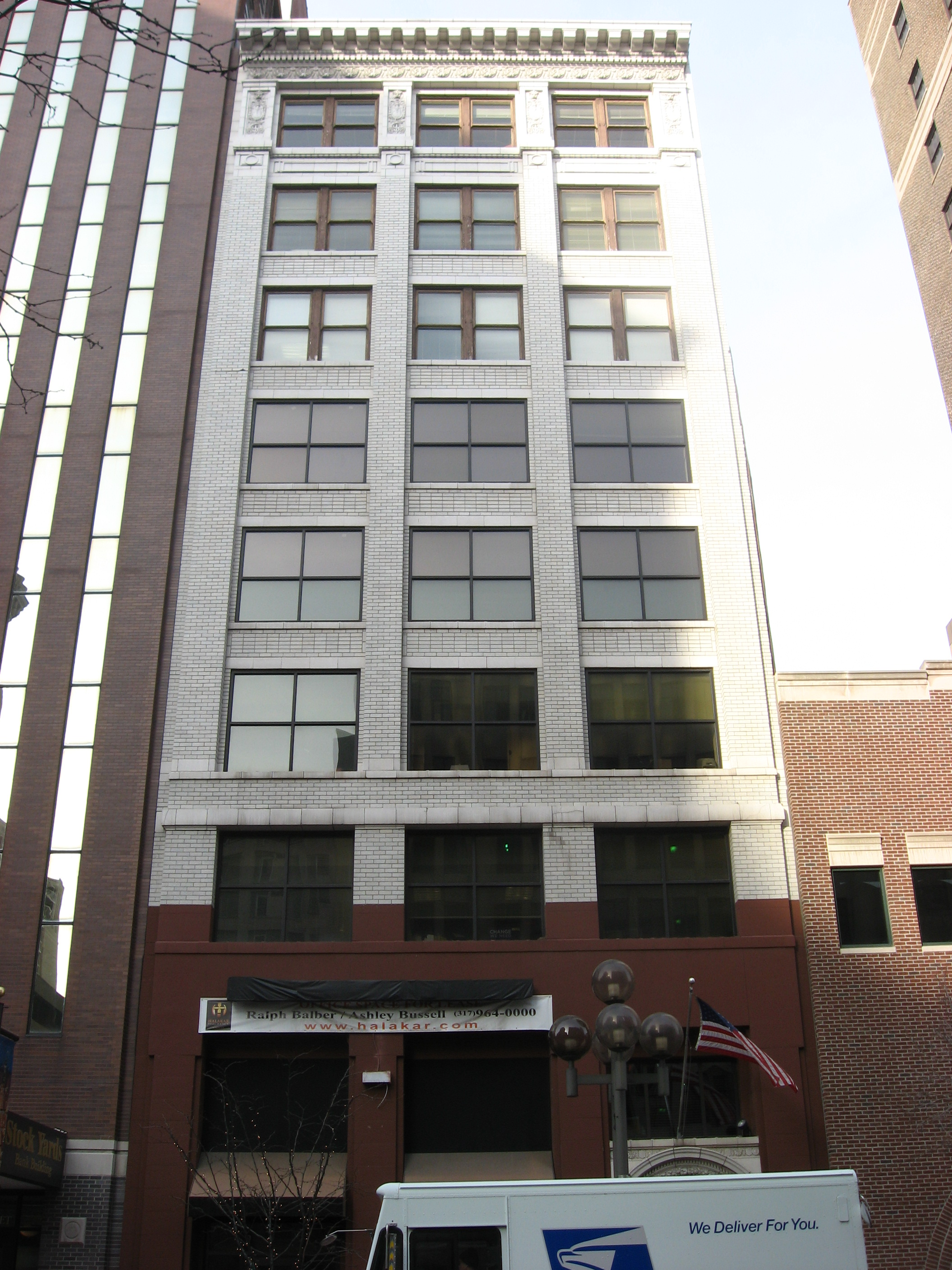 Front of the Fidelity Trust Building, located at 148 E. Market Street in downtown Indianapolis, Indiana, United States. Built in 1914, it is listed on the National Register of Historic Places, and it is a part of the Register-listed Washington Street-Monument Circle Historic District.